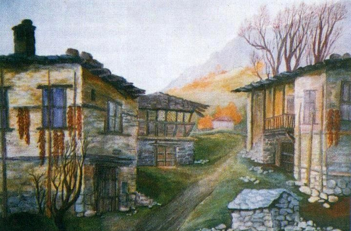 Paint of Carevikj